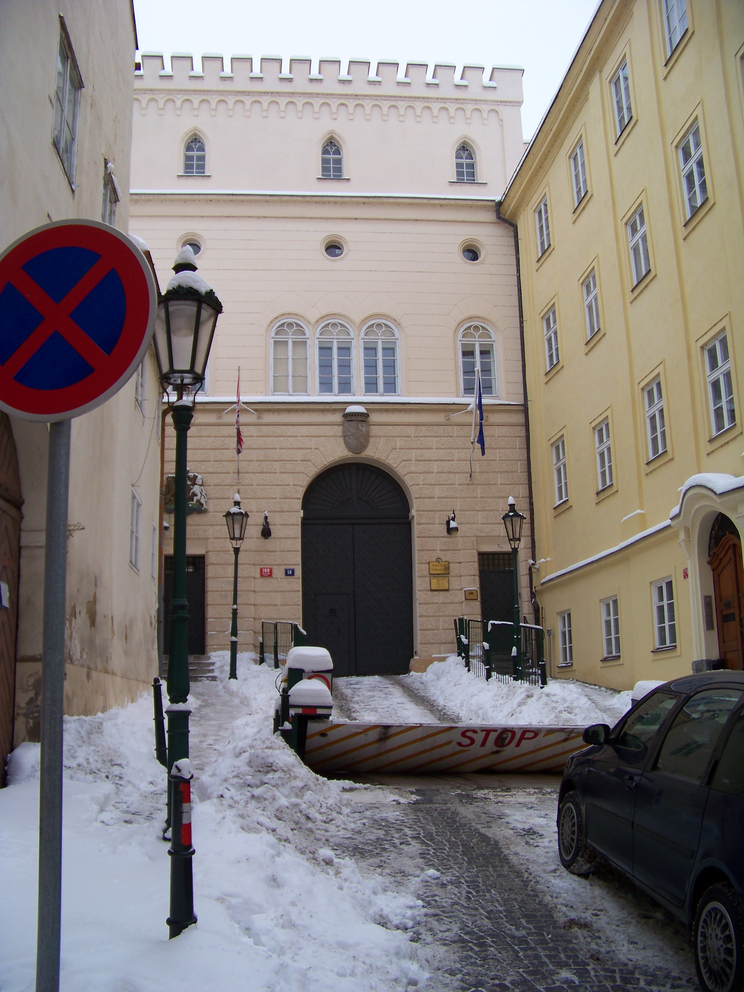 Prague-Malá Strana, the Czech Republic. Thunovská Street, the British Embassy.